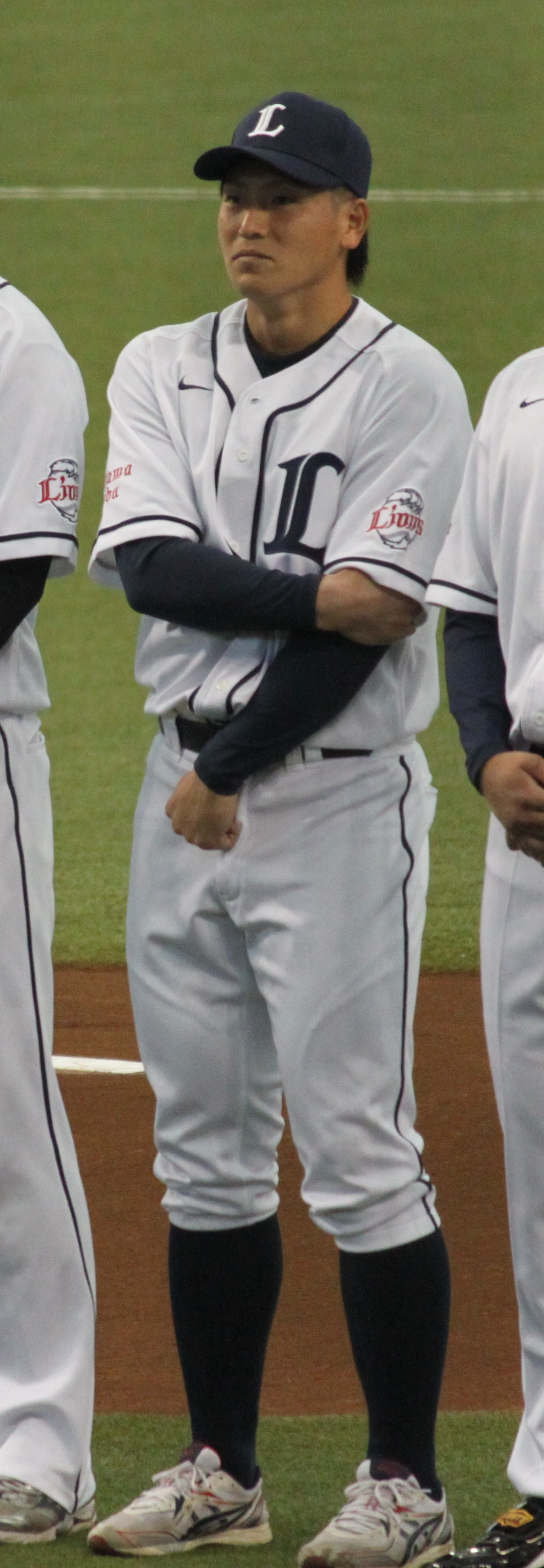 Hirotaka Koishi, pitcher of the Saitama Seibu Lions, at Seibu Dome.